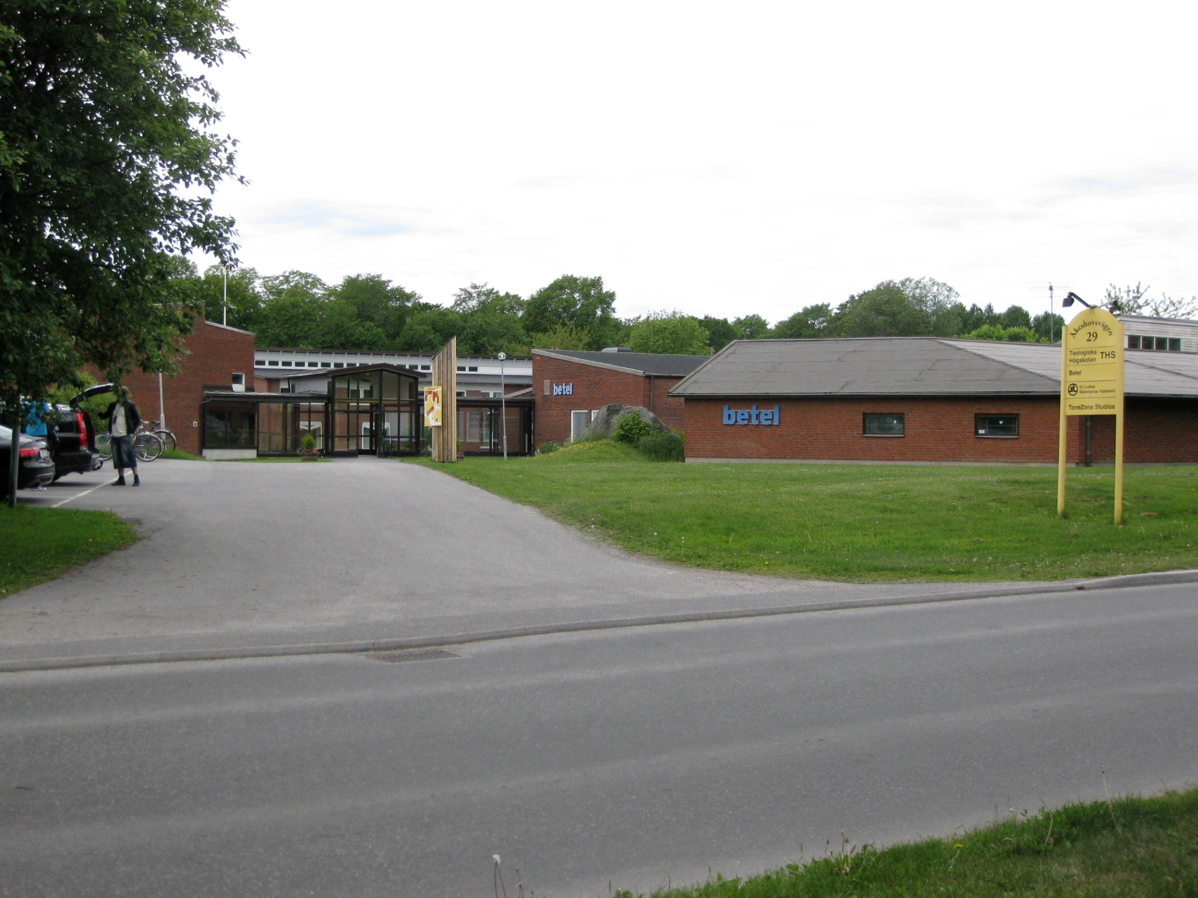 Betel folk high school, Bromma, western Stockholm, Sweden